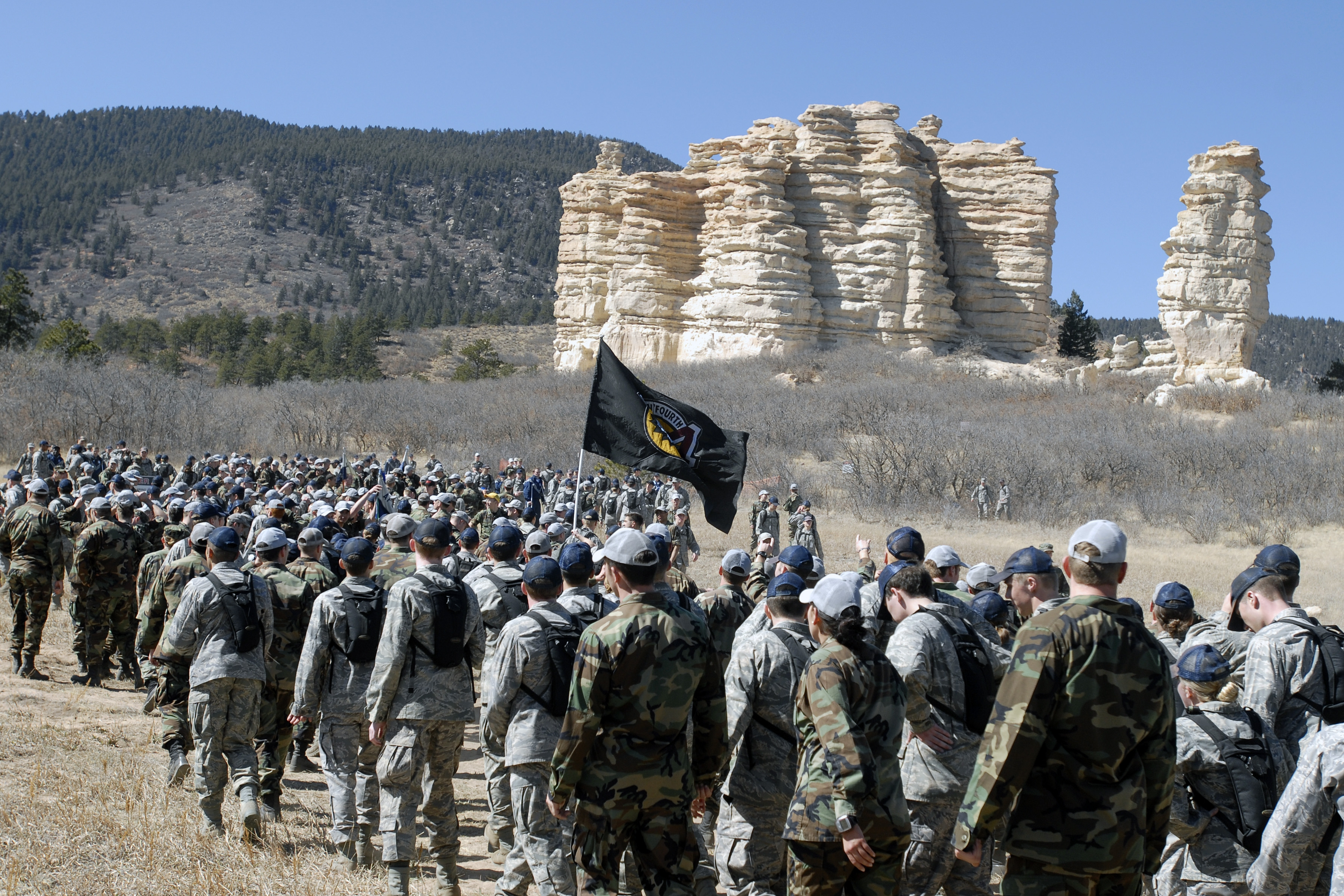 Fourth-class cadets arrive at Cathedral Rock during Recognitions "Run to the Rock". Fourth-class cadets were then required to locate their squadron "charge", a railroad tie fitted with rope handles and decorated by their classmates, and carry it, as a team, back to the Cadet Area. After completing this task of Recognition, fourth-class cadets performed a retreat ceremony and were presented their Props and Wings to wear on their flight caps during a special ceremony, signifying their acceptance into the cadet wing. (U.S. Air Force photo/Dave Ahlschwede)